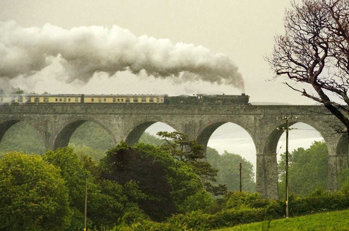 A very damp and grey day as 6024 King Edward 1 crosses the Porthkerry viaduct near Barry in May 2007. This is a reworking of a picture I uploaded some months ago. View On Black